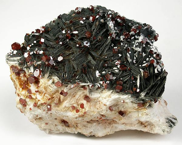 Vanadinite, Baryte, Hollandite Locality: El Kwal, Mibladene (Mibladén; Mibladan; Miblanden), Upper Moulouya lead district, Midelt, Khénifra Province, Meknès-Tafilalet Region, Morocco (Locality at ) Size: 14.3 x 9.6 x 7.9 cm. Beautifully gemmy and lustrous, cherry-red, tabular vanadinite prisms to 6 mm are richly sprinkled on the cabinet matrix of solid baryte. The coating of black hollandite on the baryte blades is a stark contrast to the red vanadinites and snow-white baryte. These vanadinite have the color and gemminess of fine spinel crystals, but are not. This showy and excellent large piece is from the much less well-known El Kwal deposit near Mibladen. Ex. Daniel Trinchillo Sr. Collection. This piece probably dates to the 1970s or 1980s.